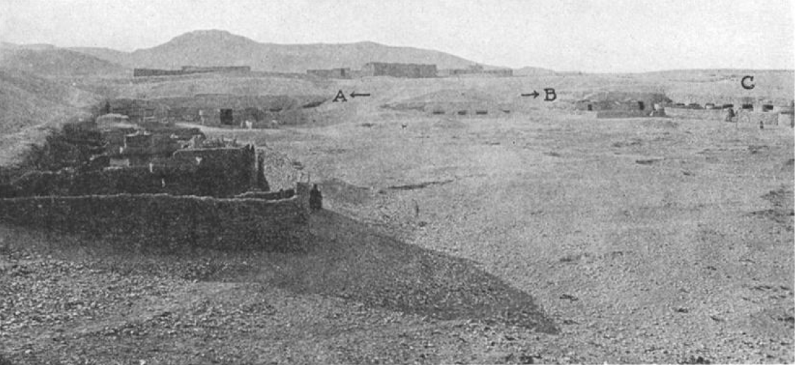 Photography of the tomb of Intef III in 1915 by Herbert Winlock. The tomb was attributed to Intef II by Winlock and later reattributed to Intef III by Arnold. Photography from "The Theban Necropolis in the Middle Kingdom", The American Journal of Semitic Languages and Literatures, Volume 32.available online copyright-free